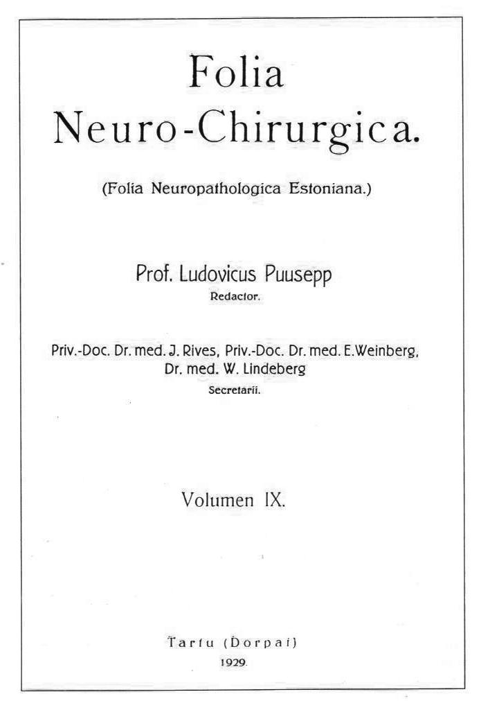 Title page of vol. IX of "Folia Neuropathologica Estoniana"